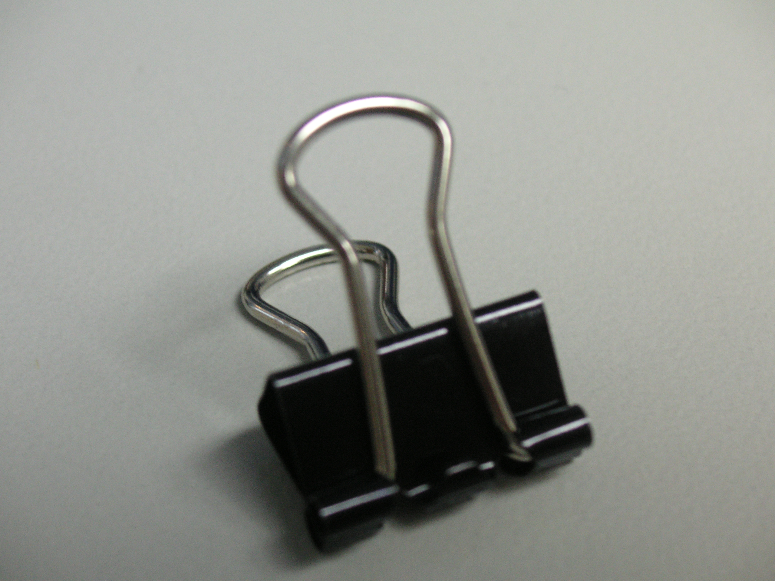 A small binder clip with base 5mm. Photograph by User:HenryLi